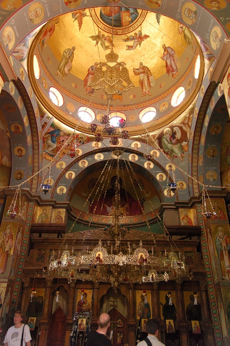 Impressions Wikimania 2011 Haifa